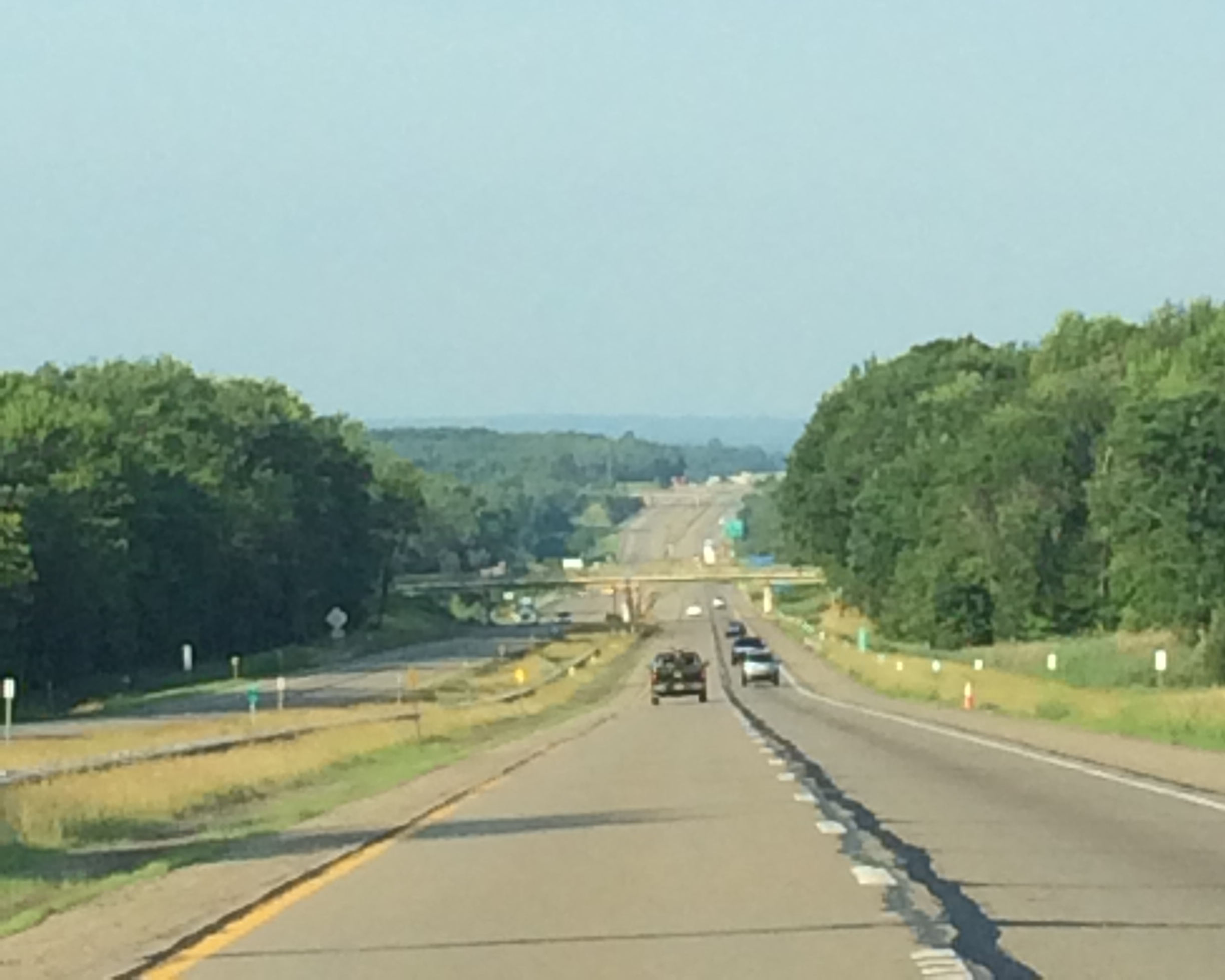 I-90 near milepost 453, on the Cattaraugus Reservation in New York just north of the Erie/Chautauqua county line